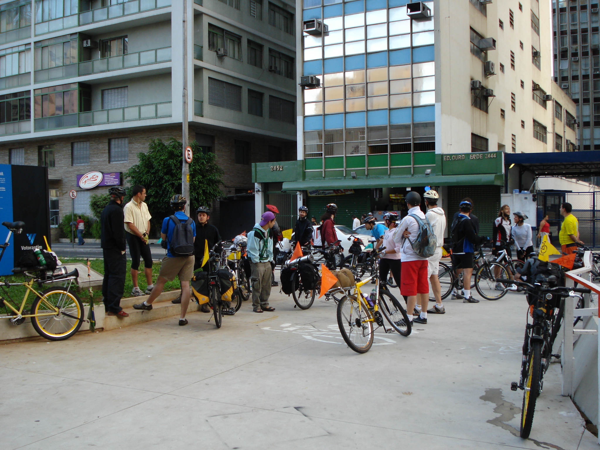 Ciclists meeting at Praça do Ciclista, to ciclotour together for two days to Ubatuba city (SP).